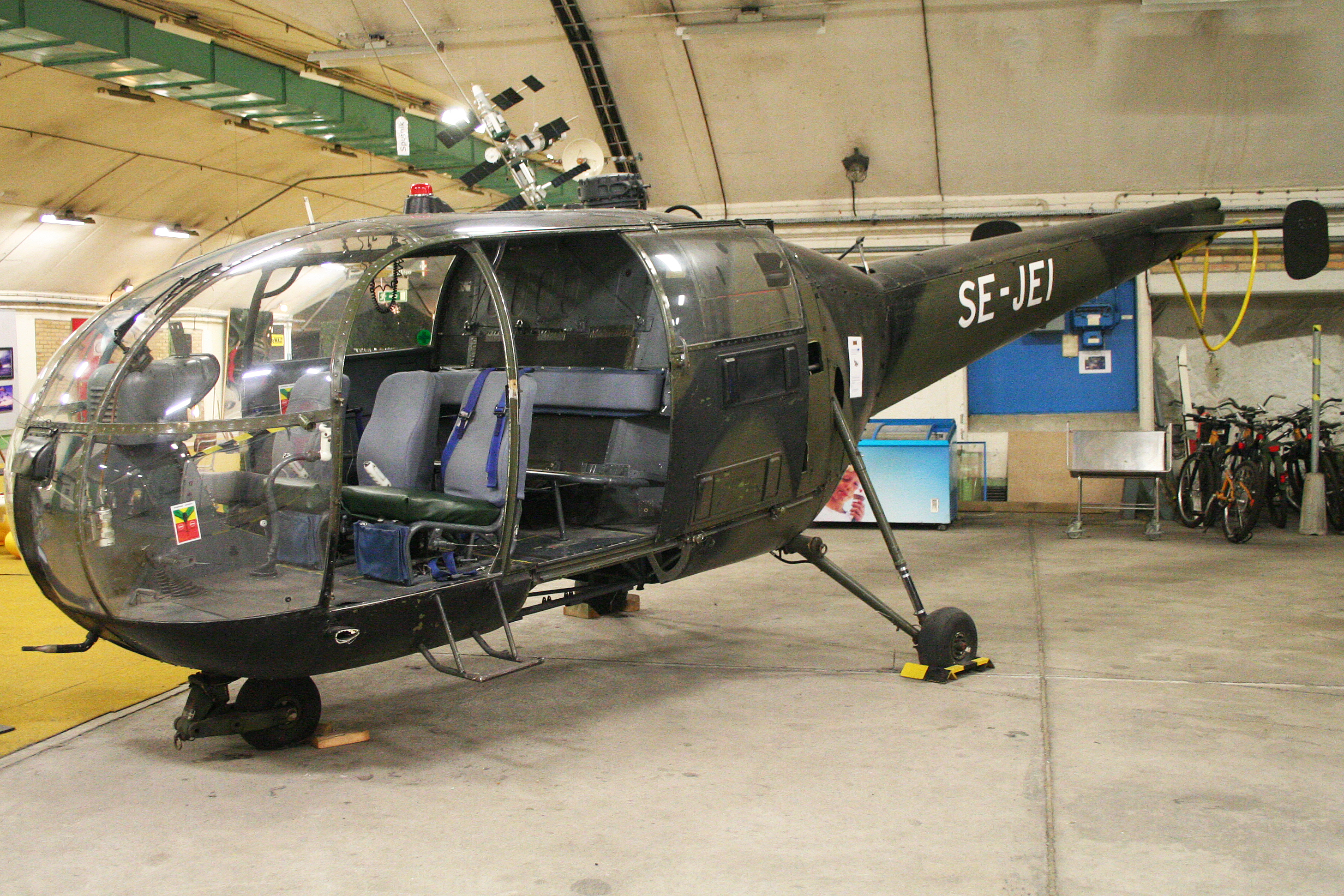 Ex KLu 'A-471' and still in camo, this Alouette is used as a 'hands-on' exhibit. msn 1471. The Aeroseum, Gothenburg Save. 02-6-2012